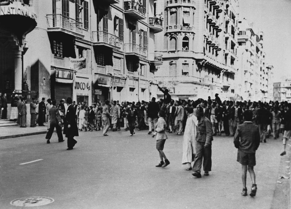 A crowd marches towards Shepherd Hotel in Cairo, Egypt on Jan. 25, 1952.